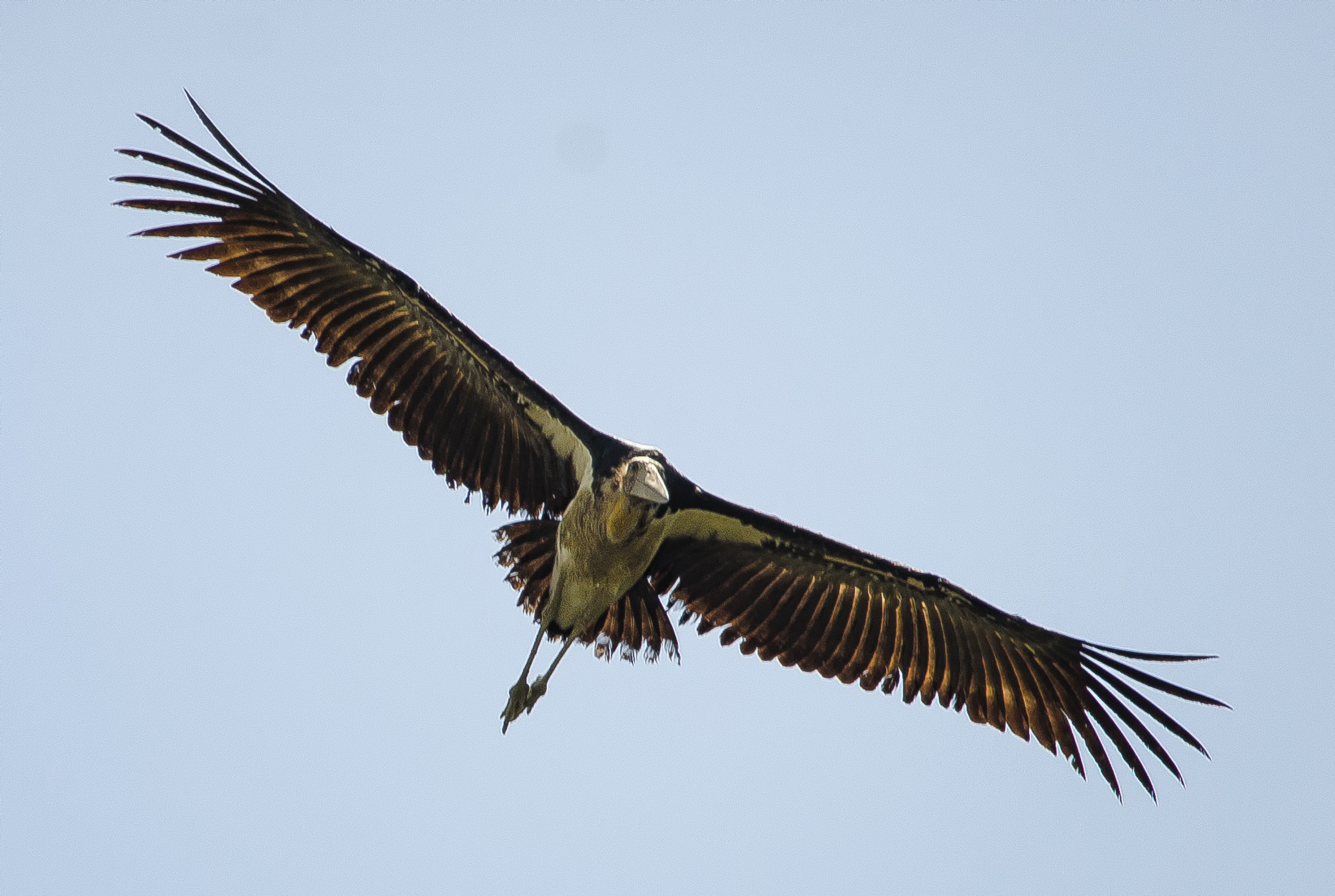 at sundarban